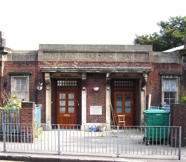 Shacklewell Washing Baths, Hackney, London. 3 September 2005. Photographer: Fin Fahey.